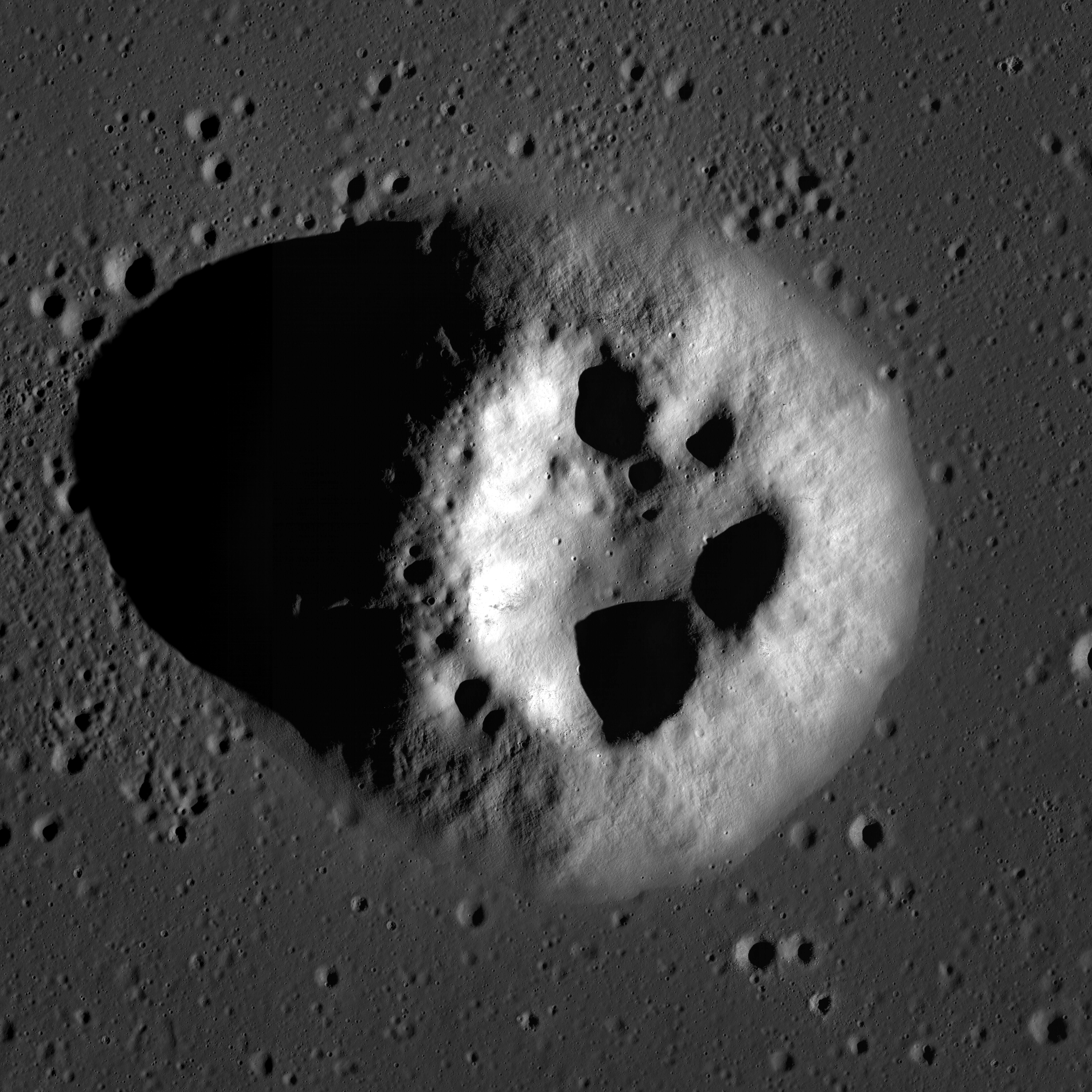 Lunar dome Mairan T on the Moon, in Oceanus Procellarum (in IAU nomenclature this name refers only to its crater, but it is sometimes used for all the dome). Diameter of the volcano is about 7 km, and the height is about 800 m. Maximal width of the crater is 3.8 km, and the depth is 450 m (Tran et al., 2011). Photo by Lunar Reconnaissance Orbiter, made with Narrow Angle Camera on 26 November 2012 from altitude 155 km. Sun elevation is 14.0°. Size of the photo is 10.0 km, north is approximately up.